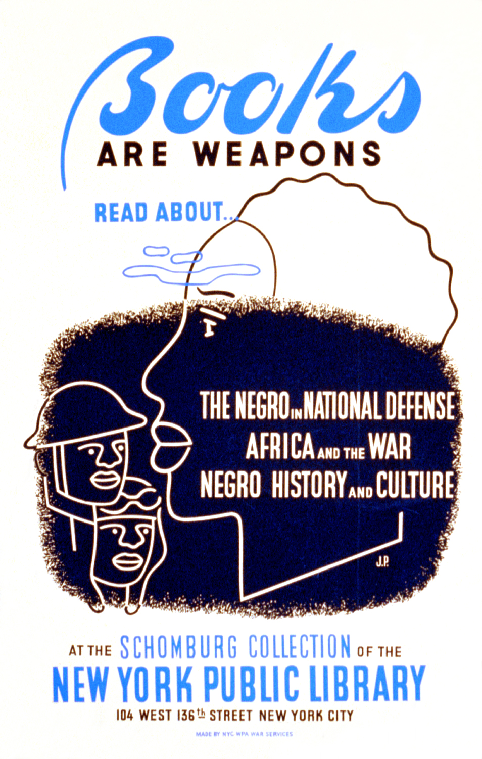 Silkscreen poster Poster promoting the use of the Schomburg Collection of the New York Public Library